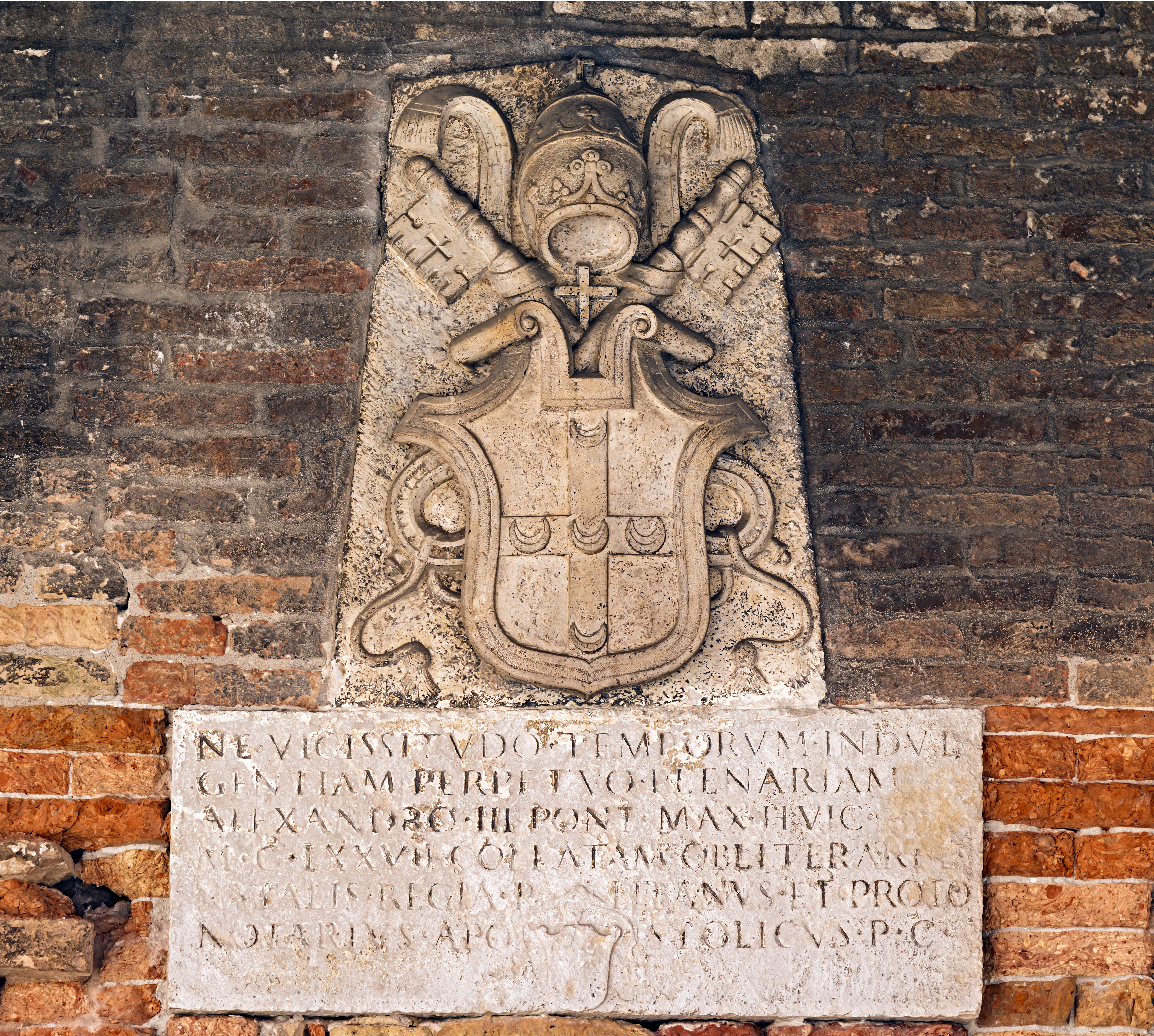 Church of San Giacomo di Rialto Venice - Plaque in remembrance of important indulgences granted by Pope Alexander III in 1177, on the facade of the church.